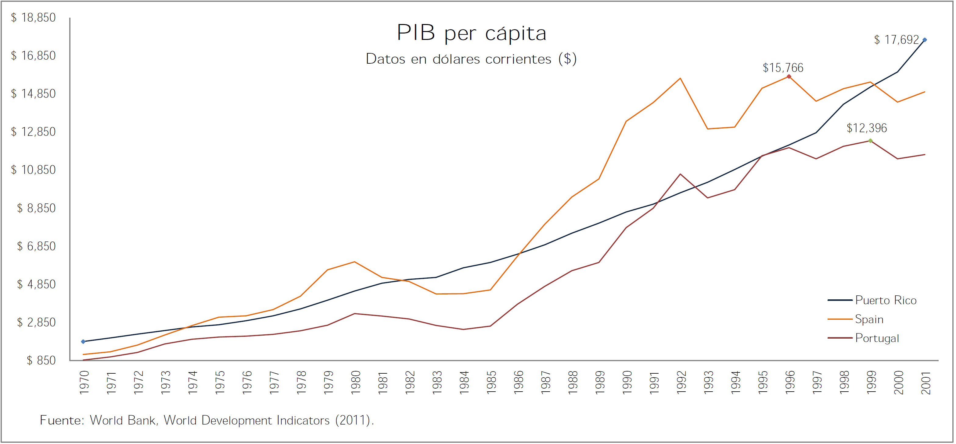 Data Source: World Bank Indicators (2001).